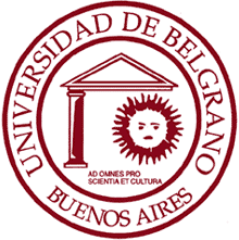 University of Belgrano logo.